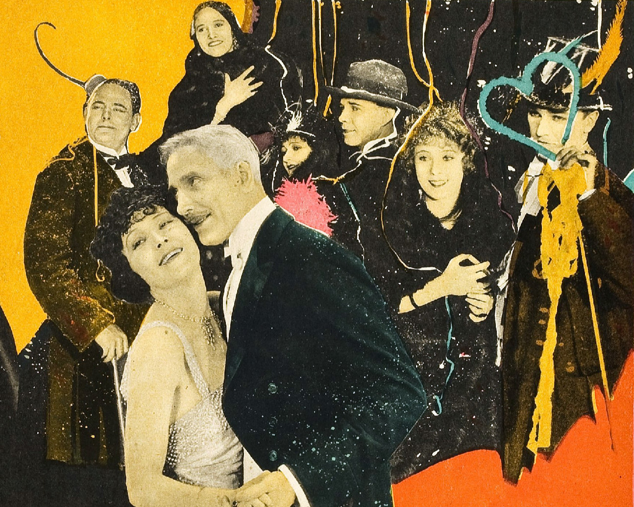 Lobby card for the American drama film Manslaughter (1922).